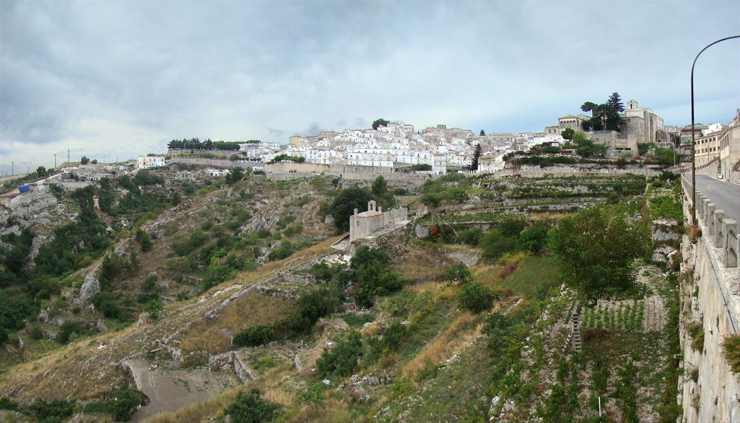 Monte Sant'Angelo, Apulia, Italy.